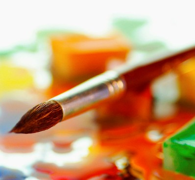 Member: Box / Artist